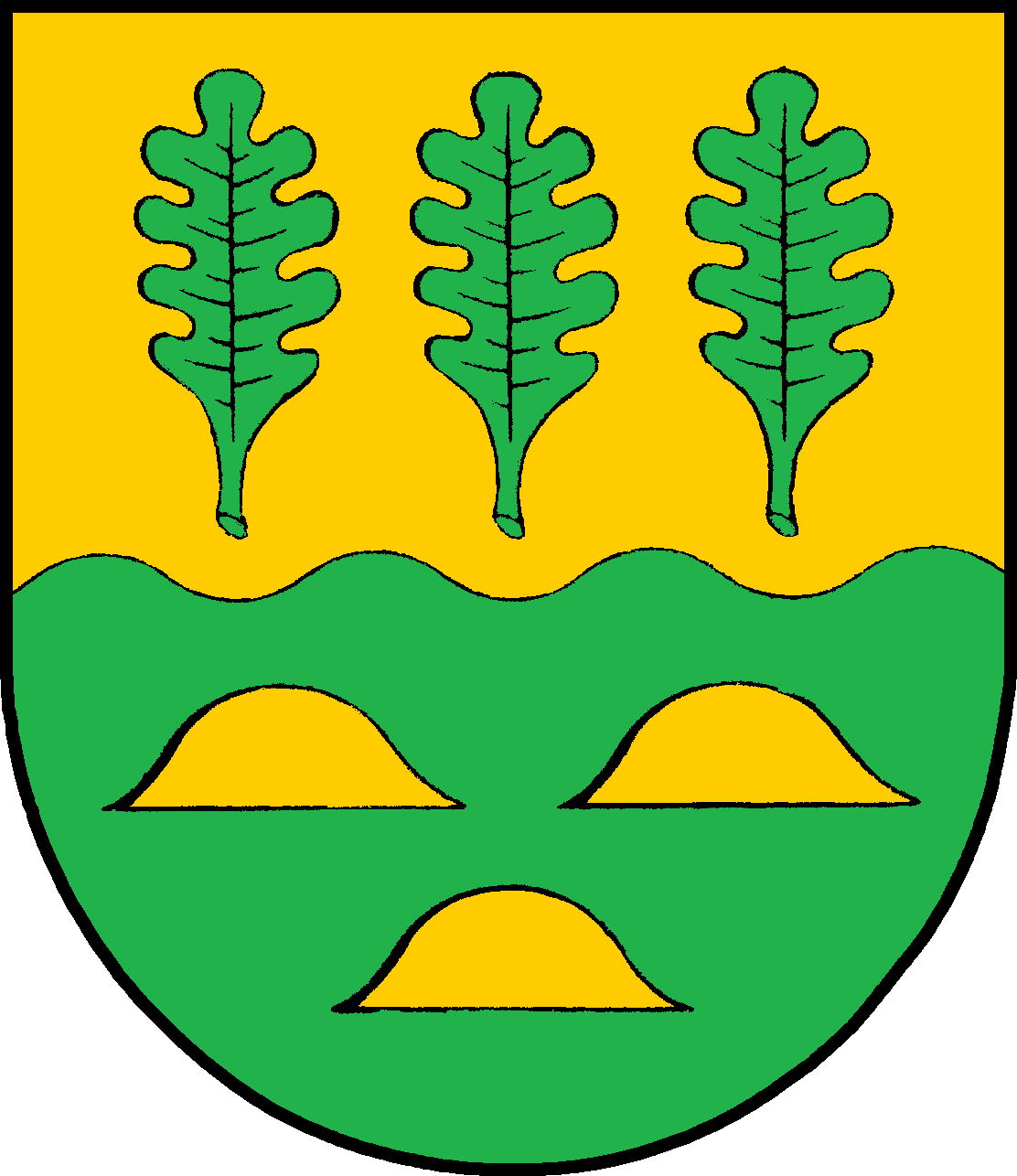 Coat of arms of the municipality Ehndorf in Schleswig-Holstein, Germany.